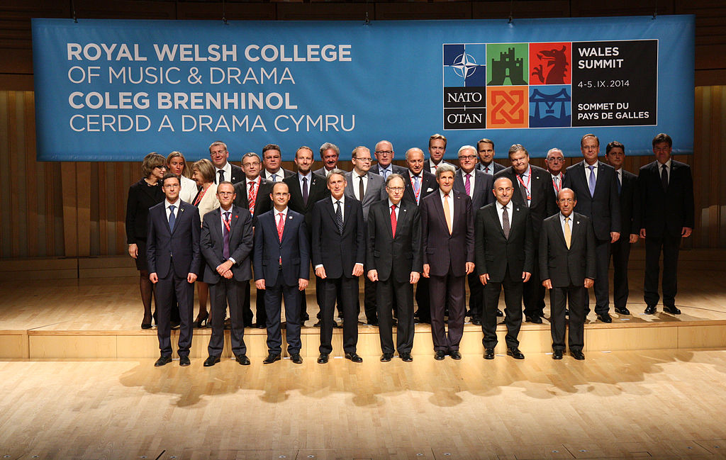 NATO Foreign Ministers' dinner at the Royal Welsh College